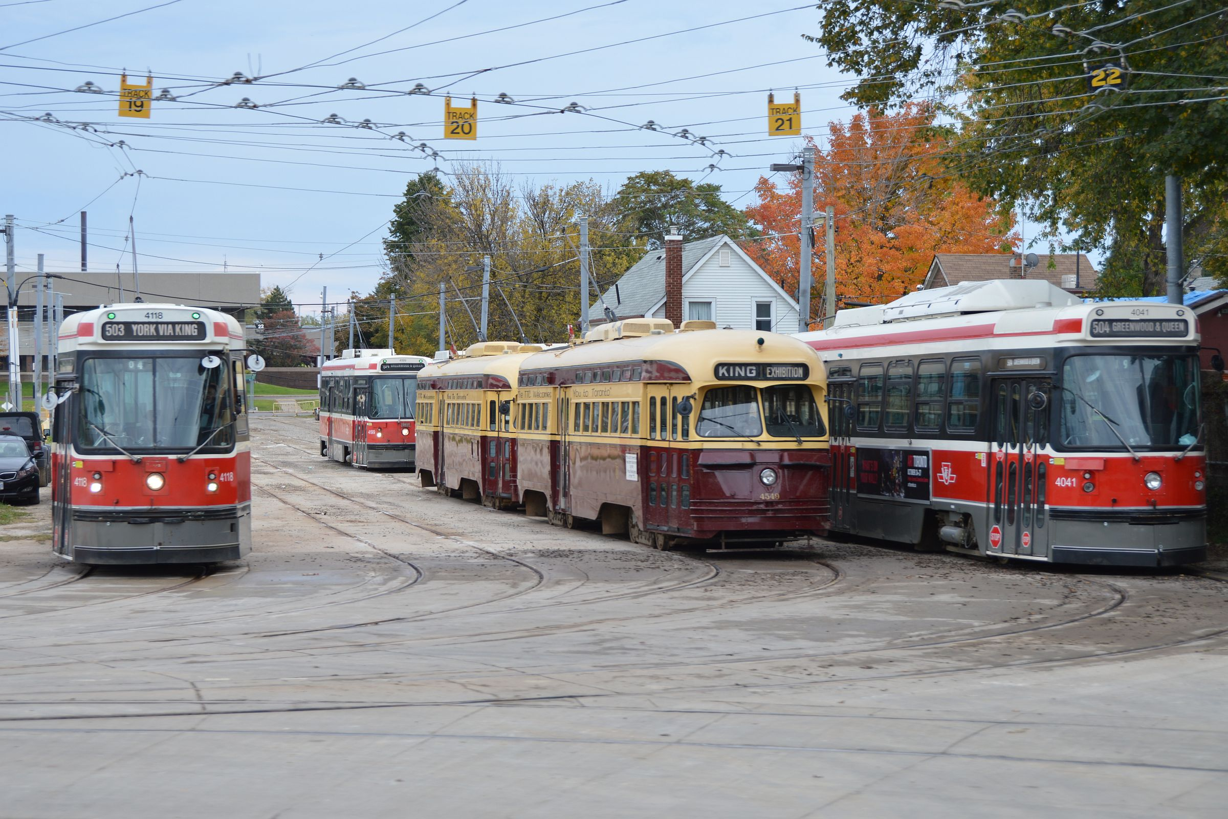 TTC Russell Carhouse streetcar storage, looking in from Queen Street East in Toronto